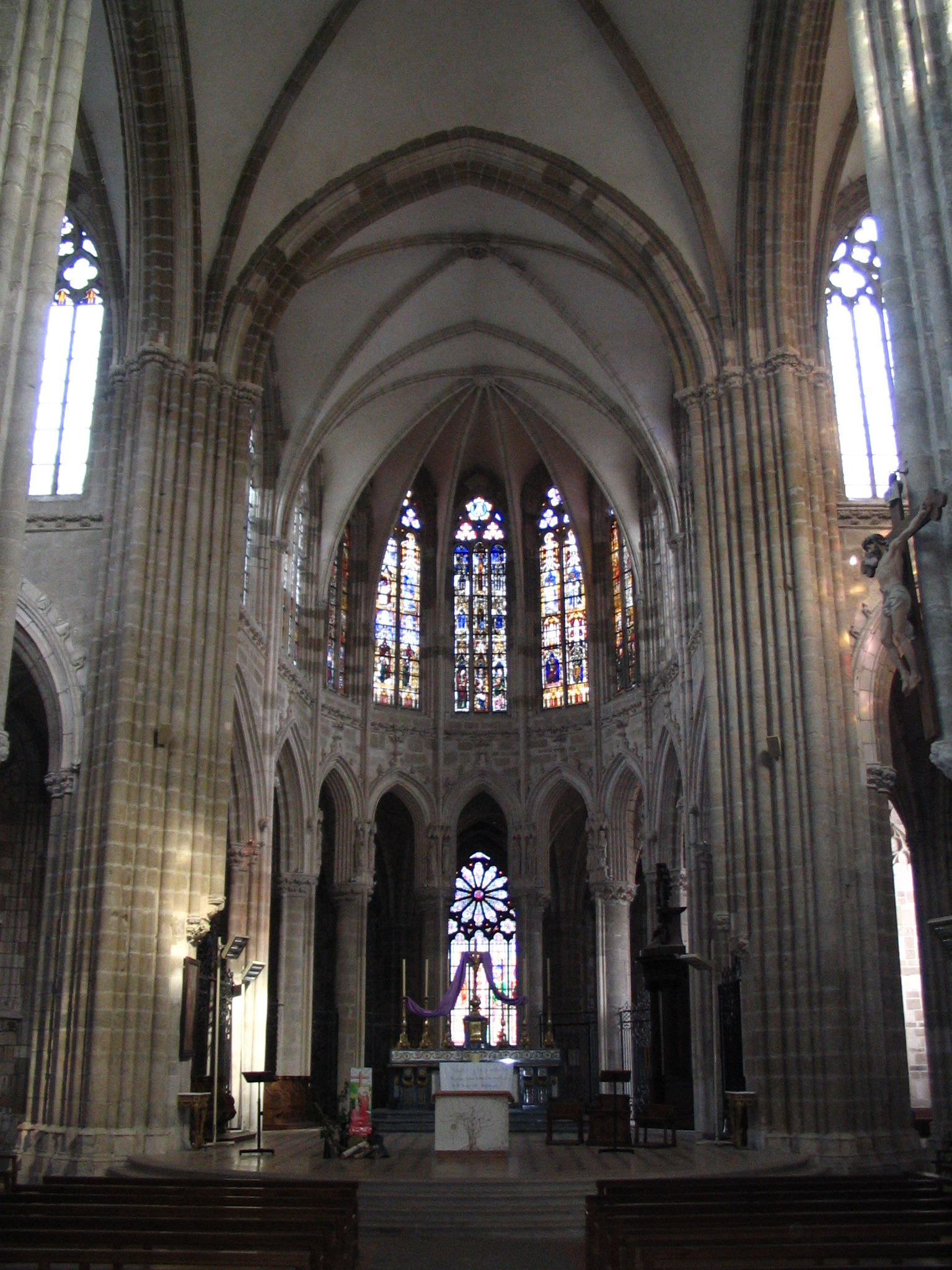 The nave of the abbey of Évron, Mayenne, France.